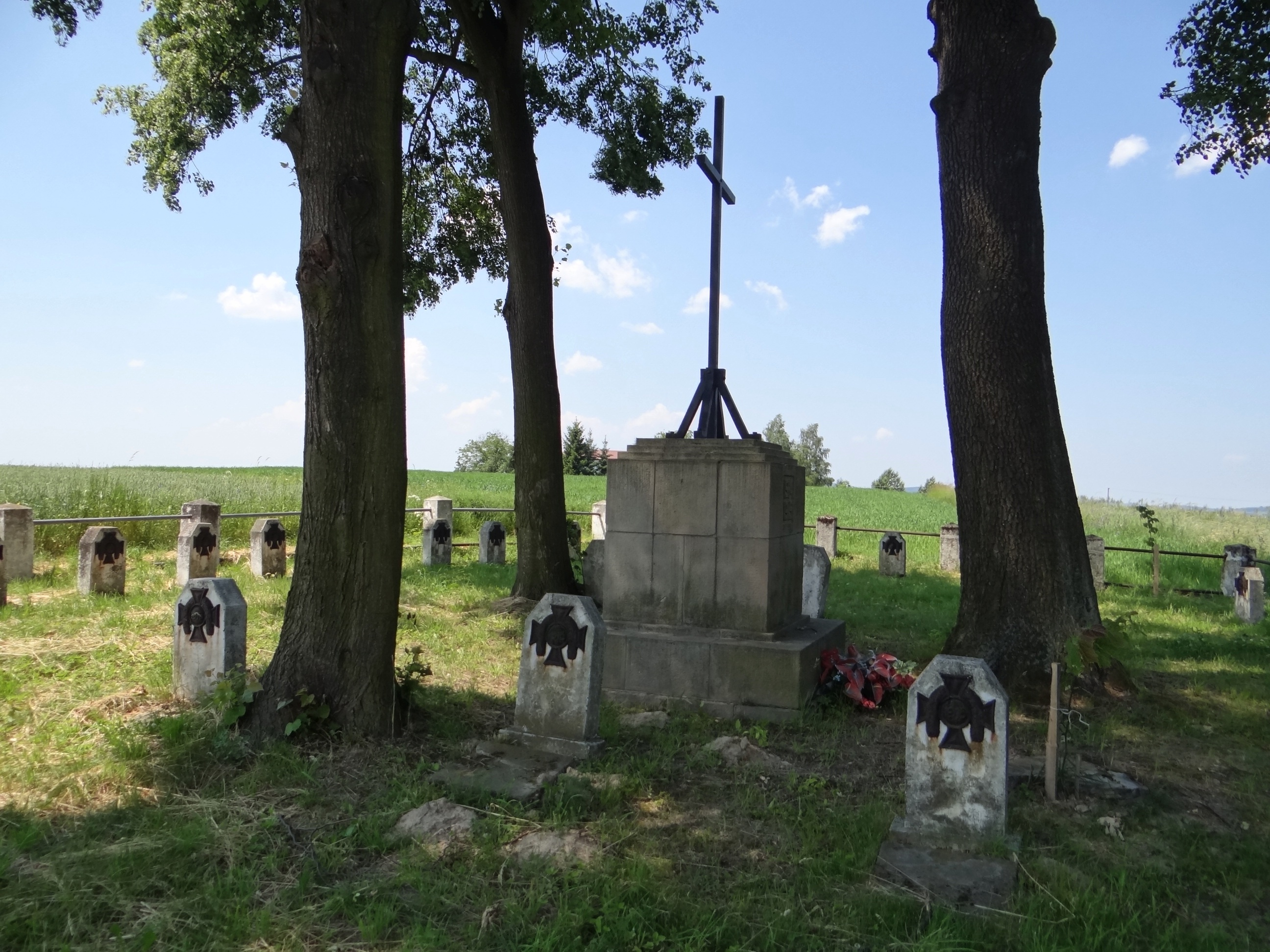 World War I Cemetery nr 165 in Bistuszow